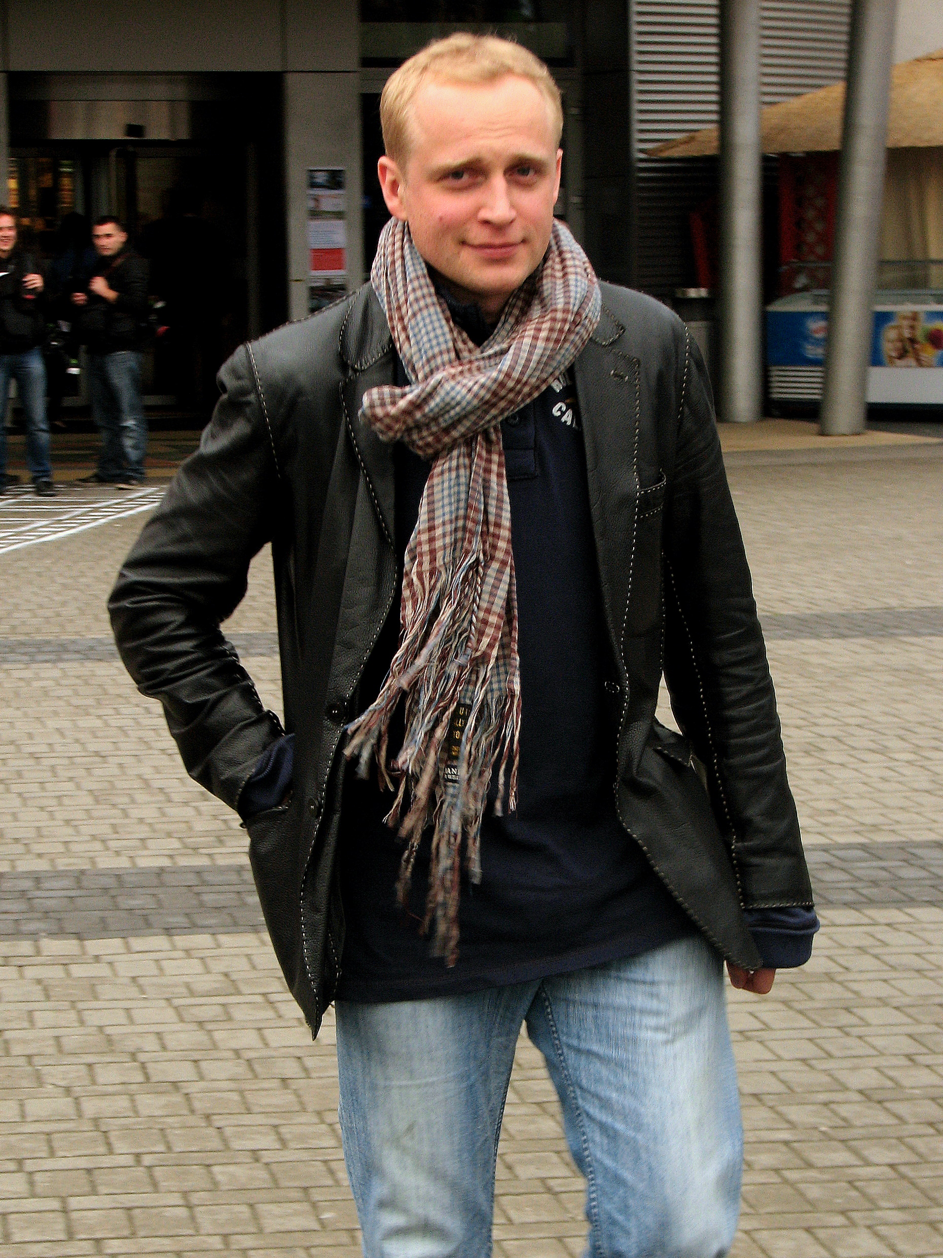 Piotr Adamczyk during XXXV Polish Film Festival in Gdynia 2010.